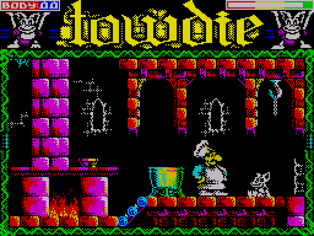 Screenshot from the original game owned by me, Louis Wittek of Ultrasoft (ZX Spectrum version)